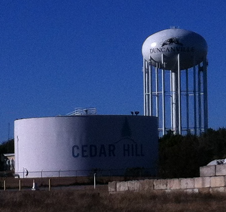 Water towers of Duncanville, TX and Cedar Hill, TX. The site is at the edge of the two cities, on the west side of Highway 67.